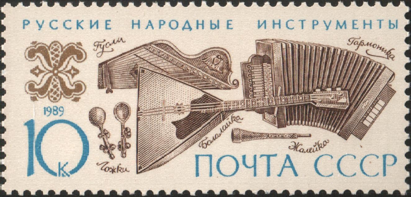 A USSR stamp